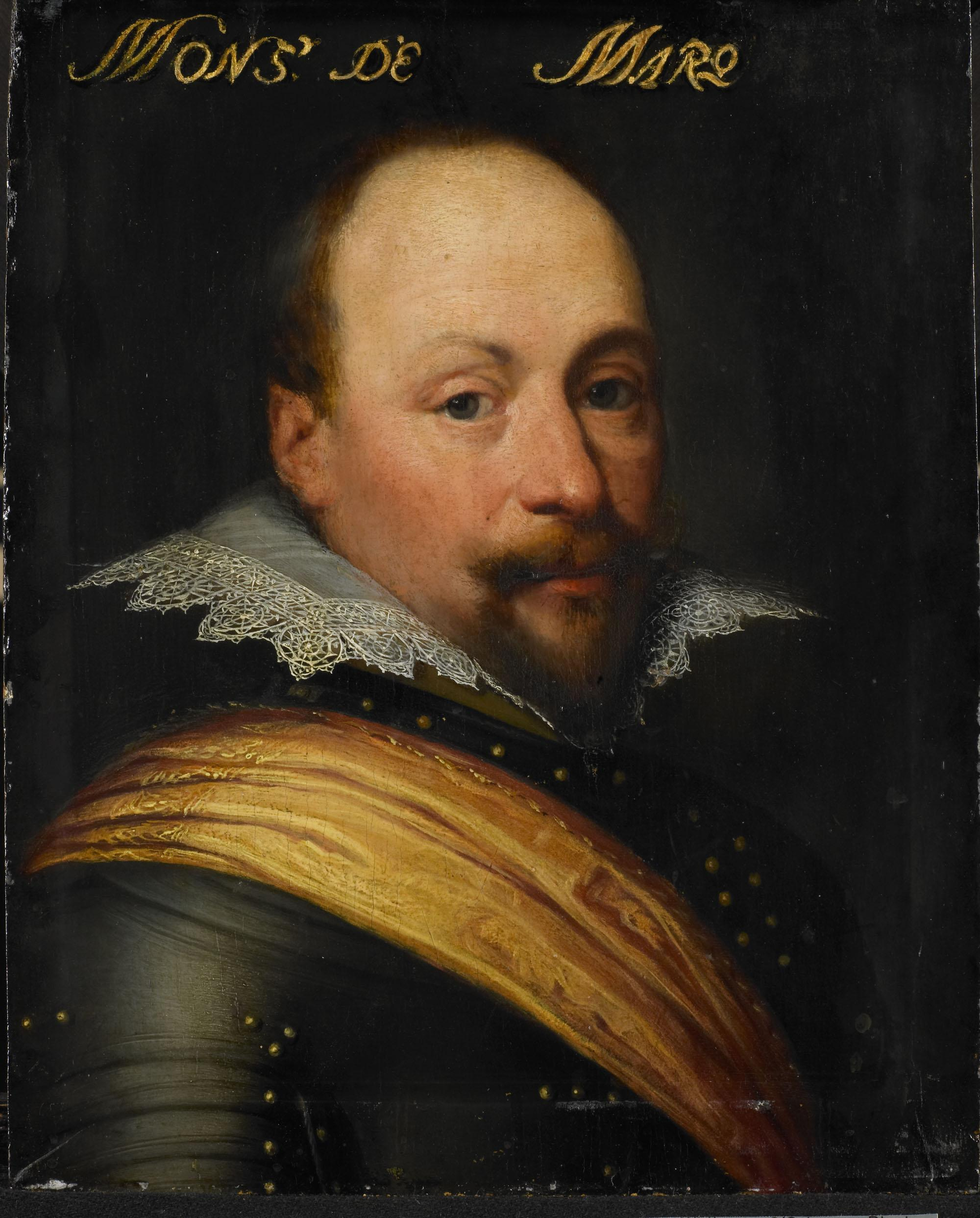 Portrait of Daniel de Hertaing (....-1625). Part of the Leeuwarden series, a series of portraits of military officials from the Eighty Years' War as well as members of the House of Orange-Nassau, first documented in 1633 in the Stadhouderlijk Hof (Stadholder's Court) in Leeuwarden (see Object history)..